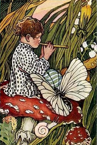 Postcard by Matorin Nikolay Vasilyevich. The character from a Russian fairy tale